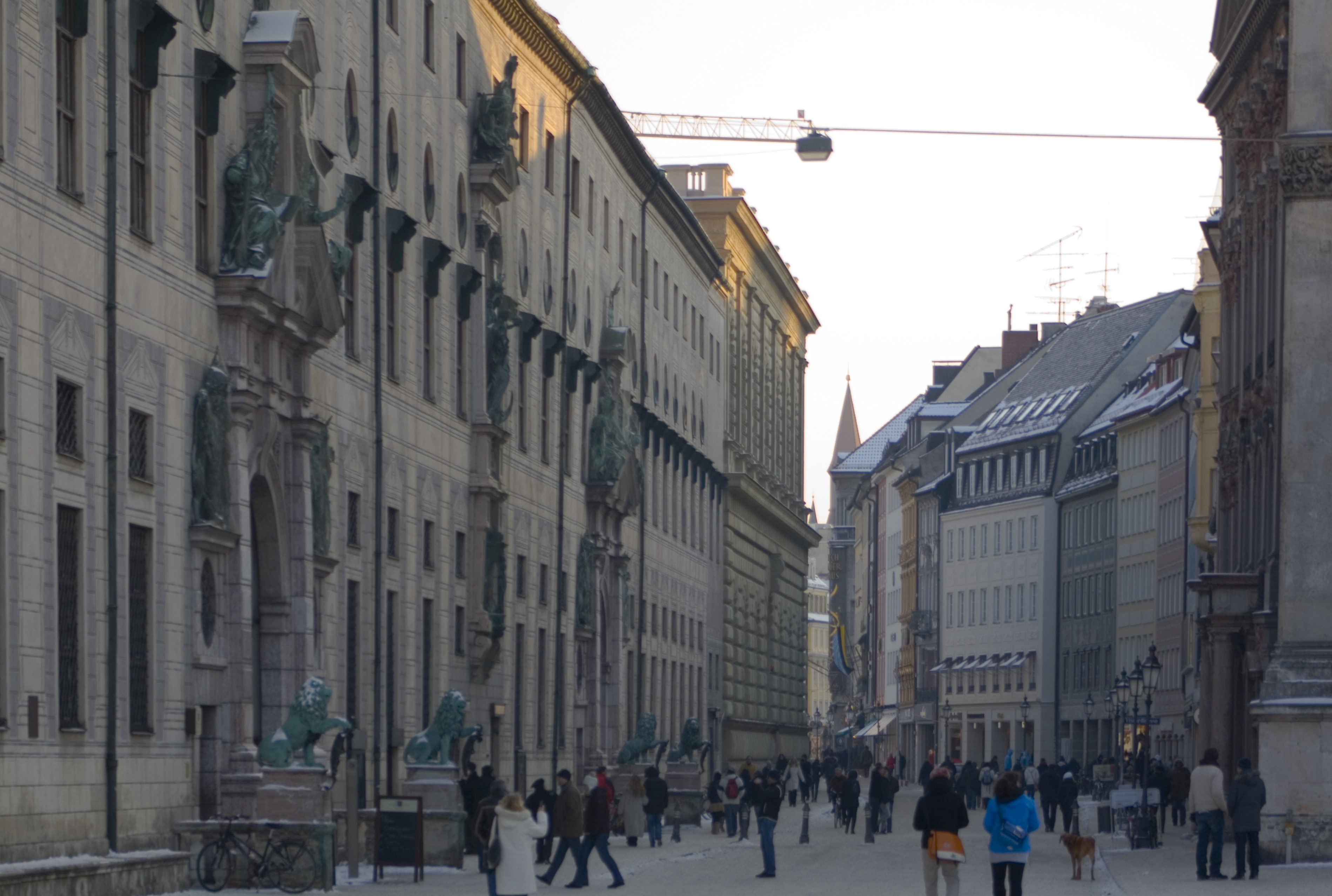 Residenzstraße, Munich, Germany